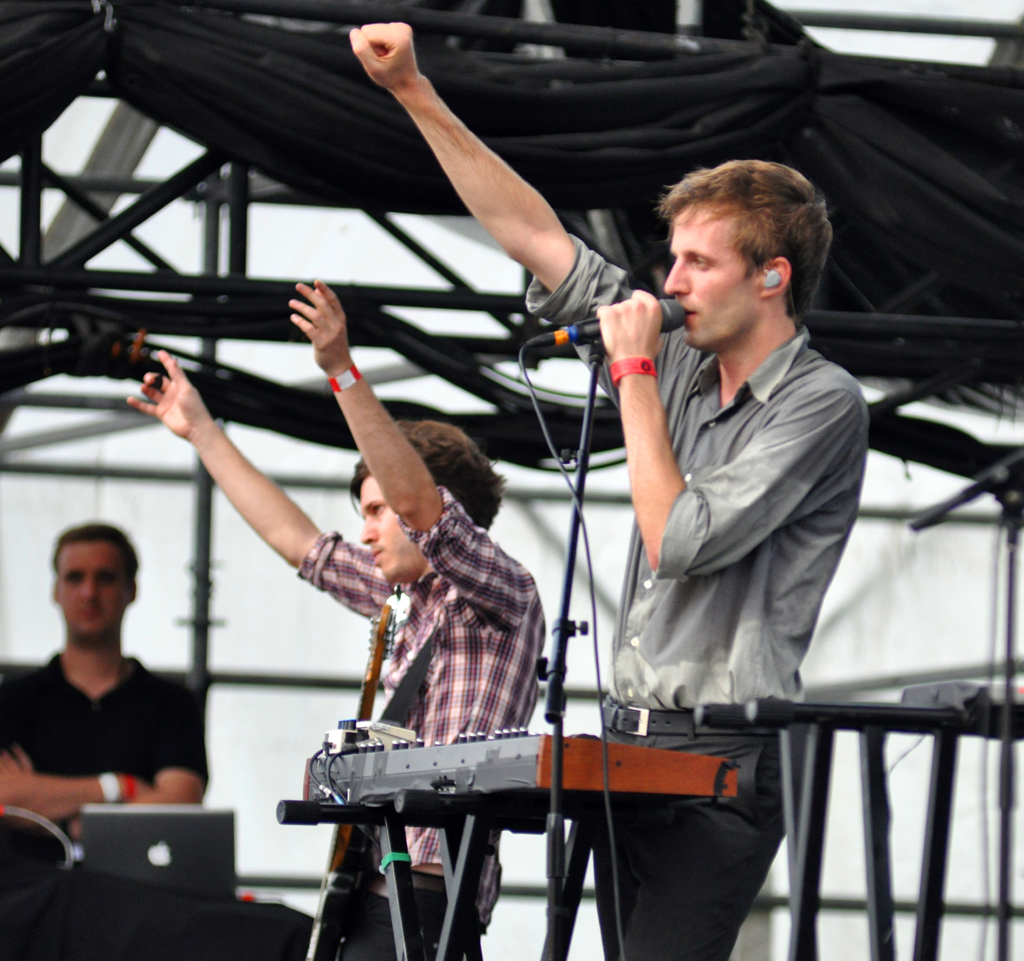 Cut Copy, Williamsburg, Waterfront, August 8, 2010